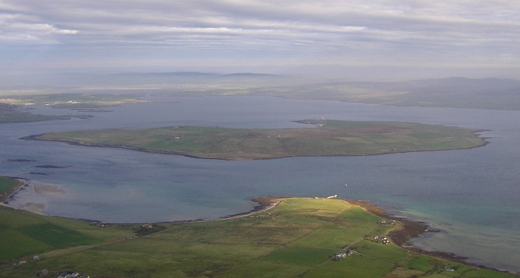 Graemsay seen from a hill on Hoy, Orkney Islands